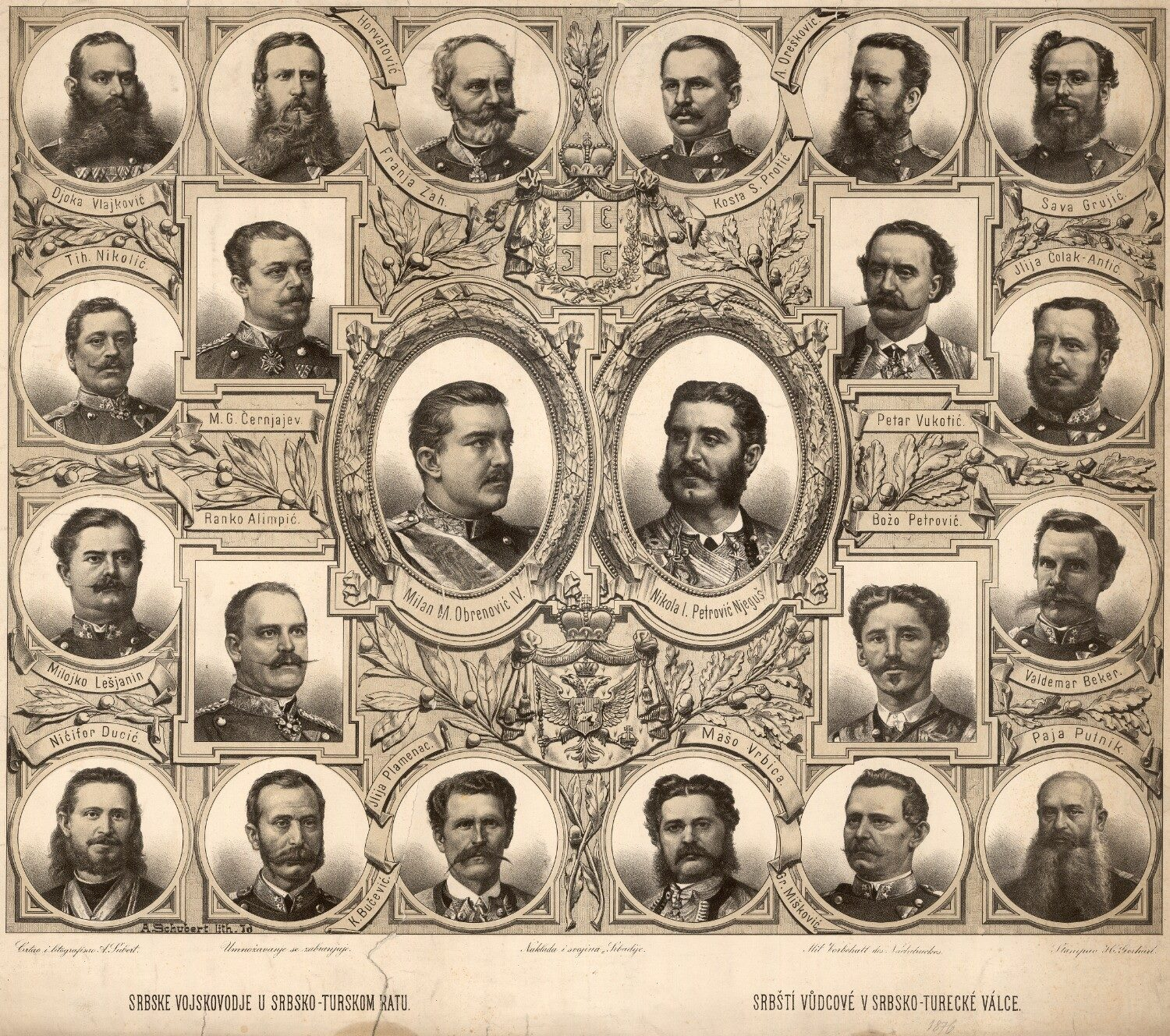 Serb military commanders in the Serbo-Turkish War (including Montenegrin ones). Made by Schubert, A in 1876.